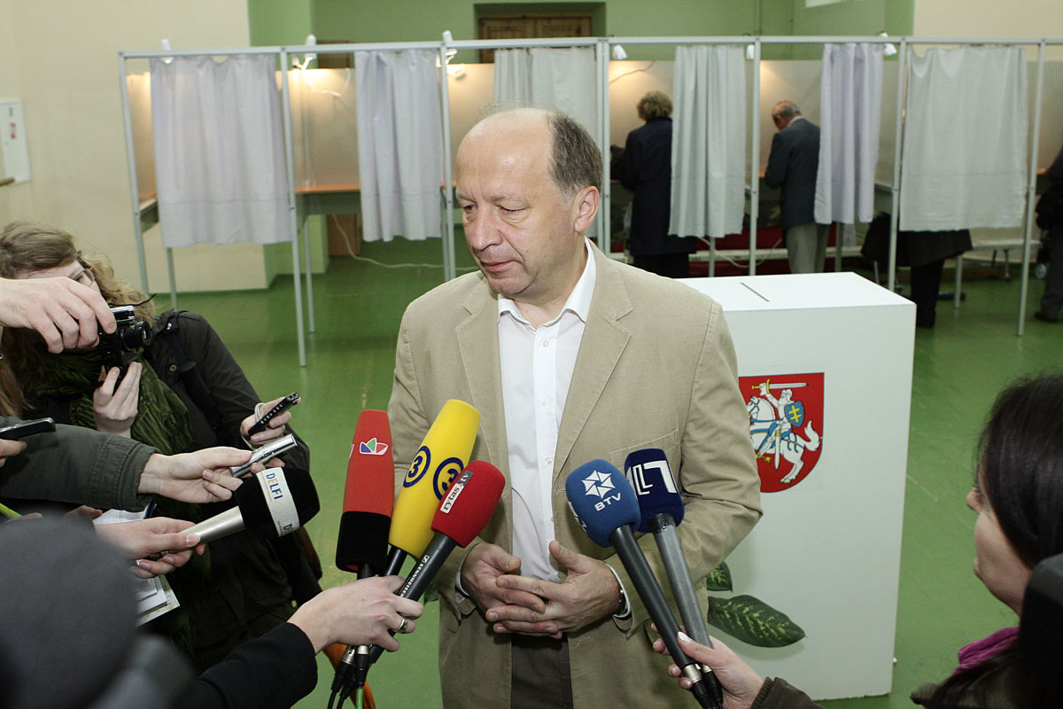 Andrius Kubilius in the voting station at Presidential elections in Lithuania 2009-05-17